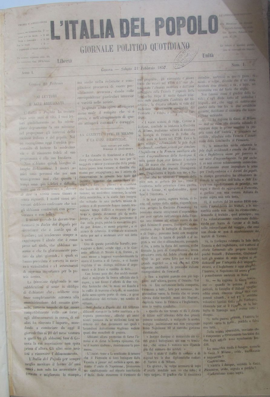 First page